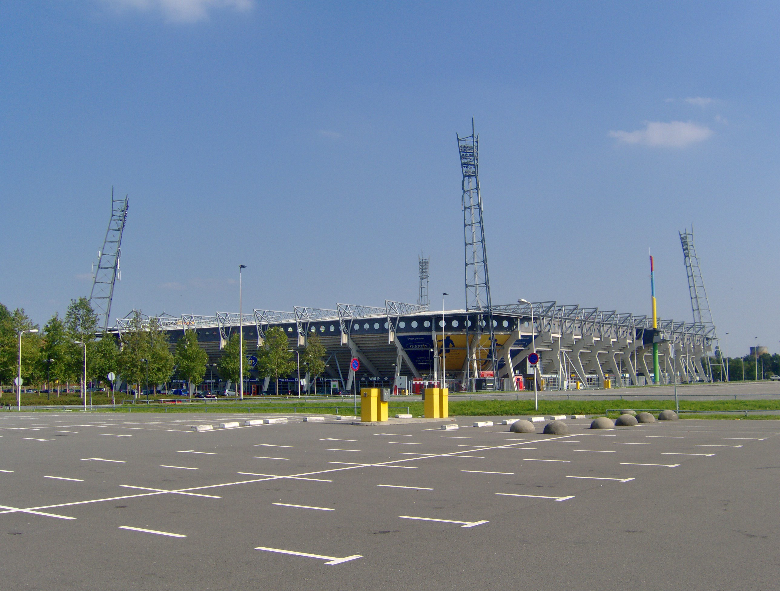 The Arke Stadion, the soccer stadium of FC Twente from Enschede, Netherlands (before it was expanded and renamed to De Grolsch Veste). Seen from the west.